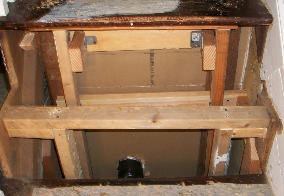 This is a picture from a stair repair project. The supporting stair beam (right, generally not shown) had broken, and the stairs were shaky. A reinforcing structure was built inside the opened stairs in a 140-year old house (shown in picture). Later, stairs were put back on. Source of picture: here with a public domain declaration on the starter article here. Questions? Write to my Wikipedia page or email me at .